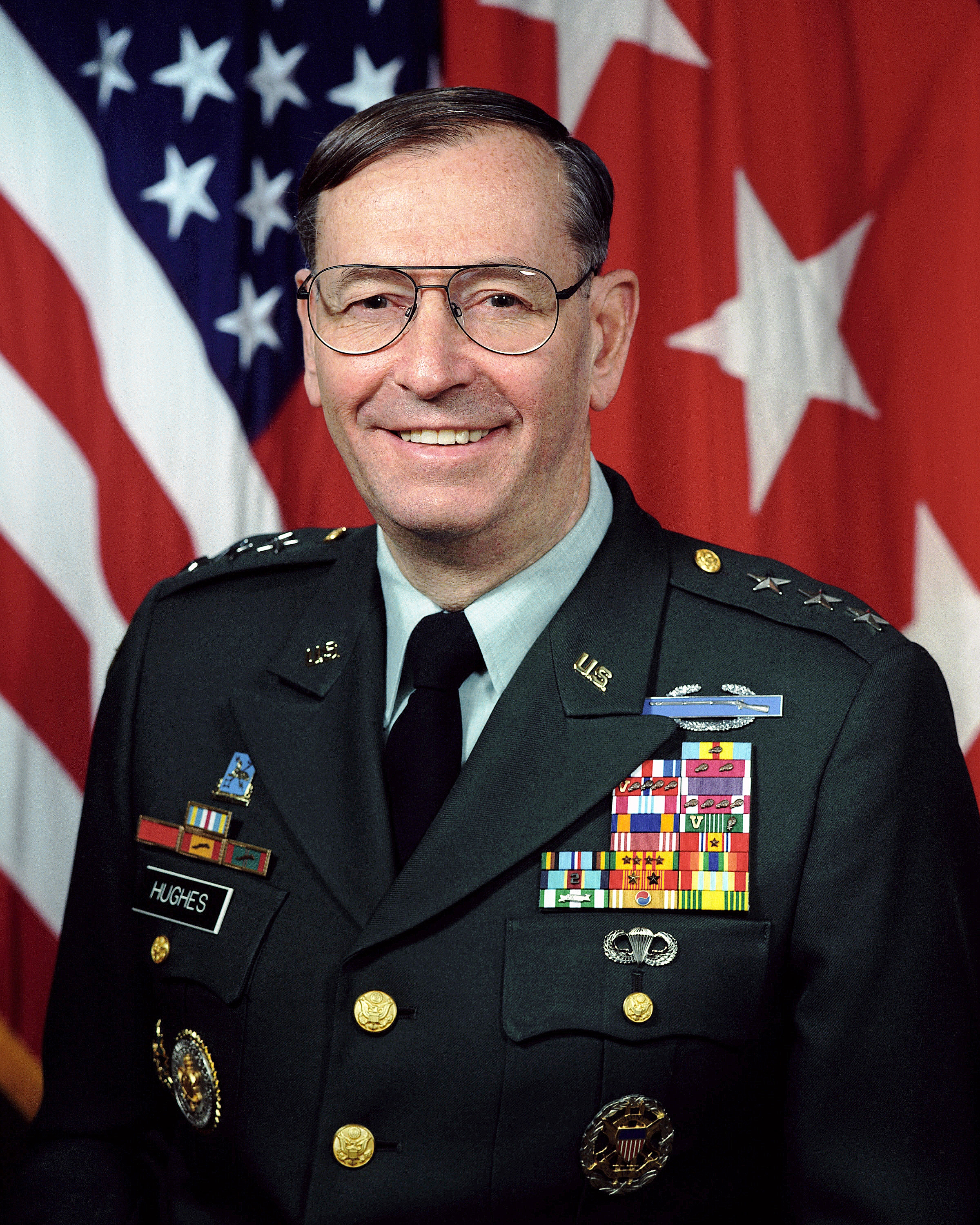 United States Army Lieutenant General Patrick M. Hughes, in December 1998.